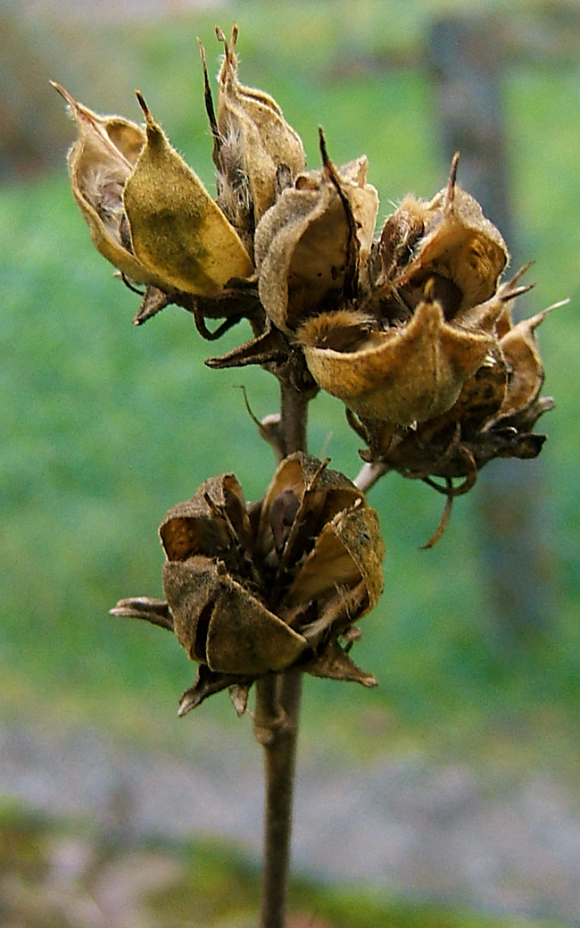 Common Hollyhock